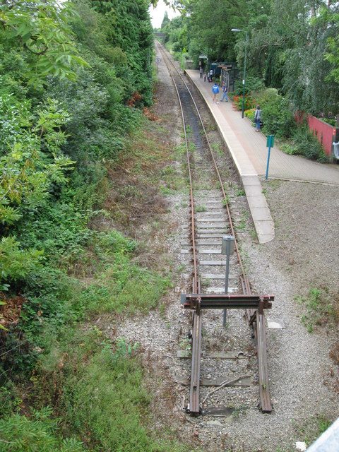 End of the Coryton Line at Coryton station, Cardiff, Wales